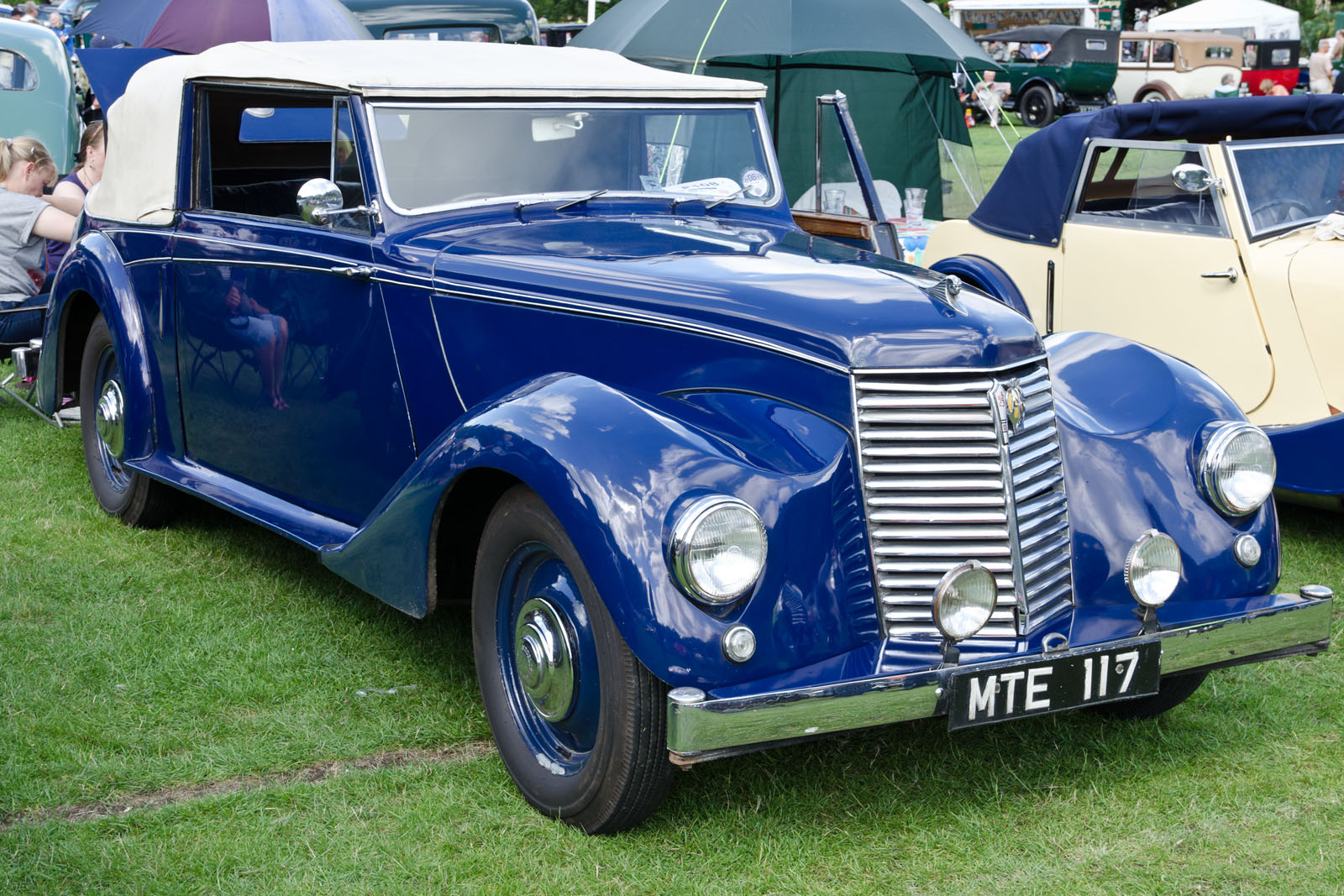 Hebden Bridge Vintage Weekend 04/08/2013